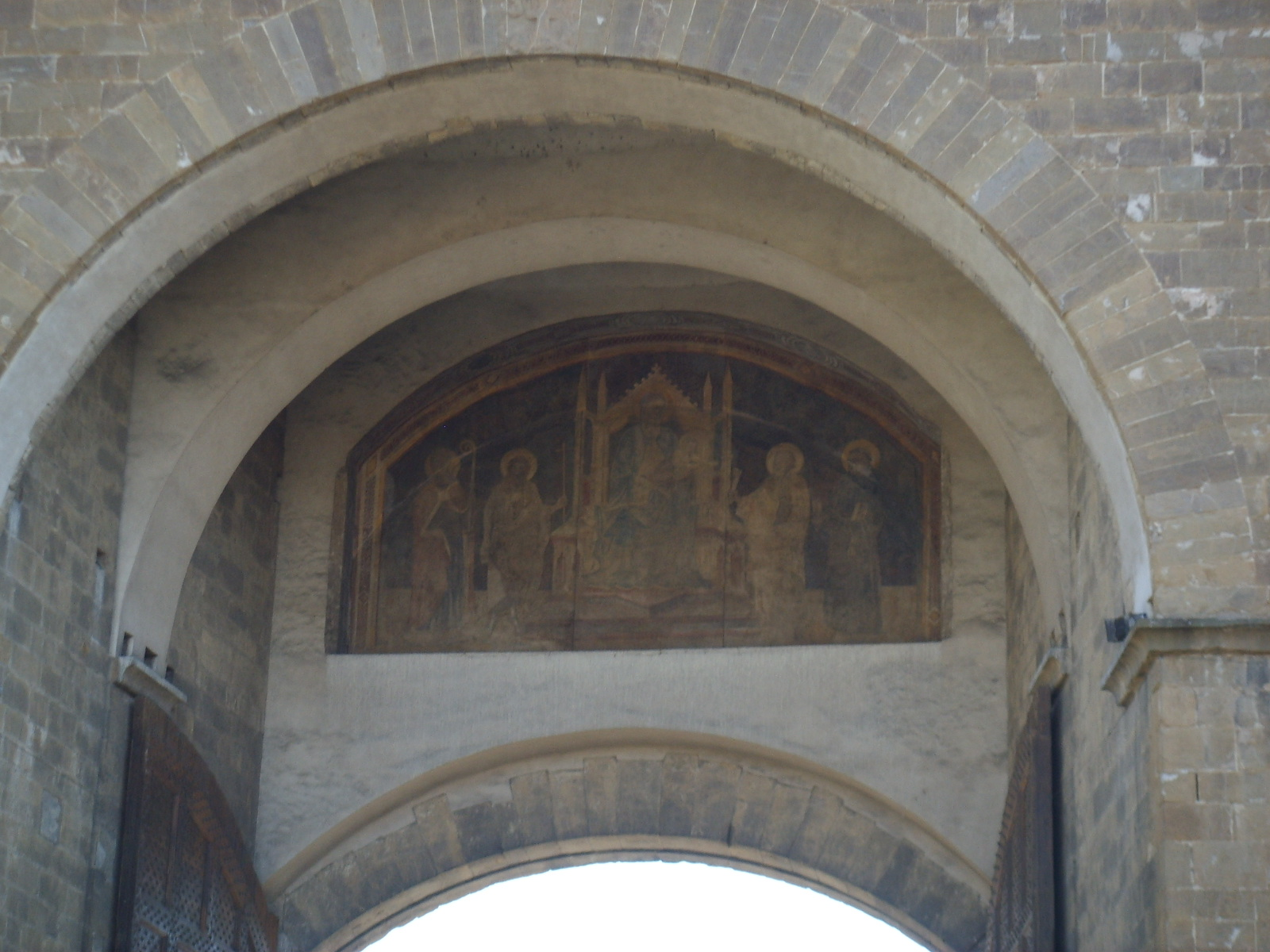 Porta Romana, city walls in Florence, Italy